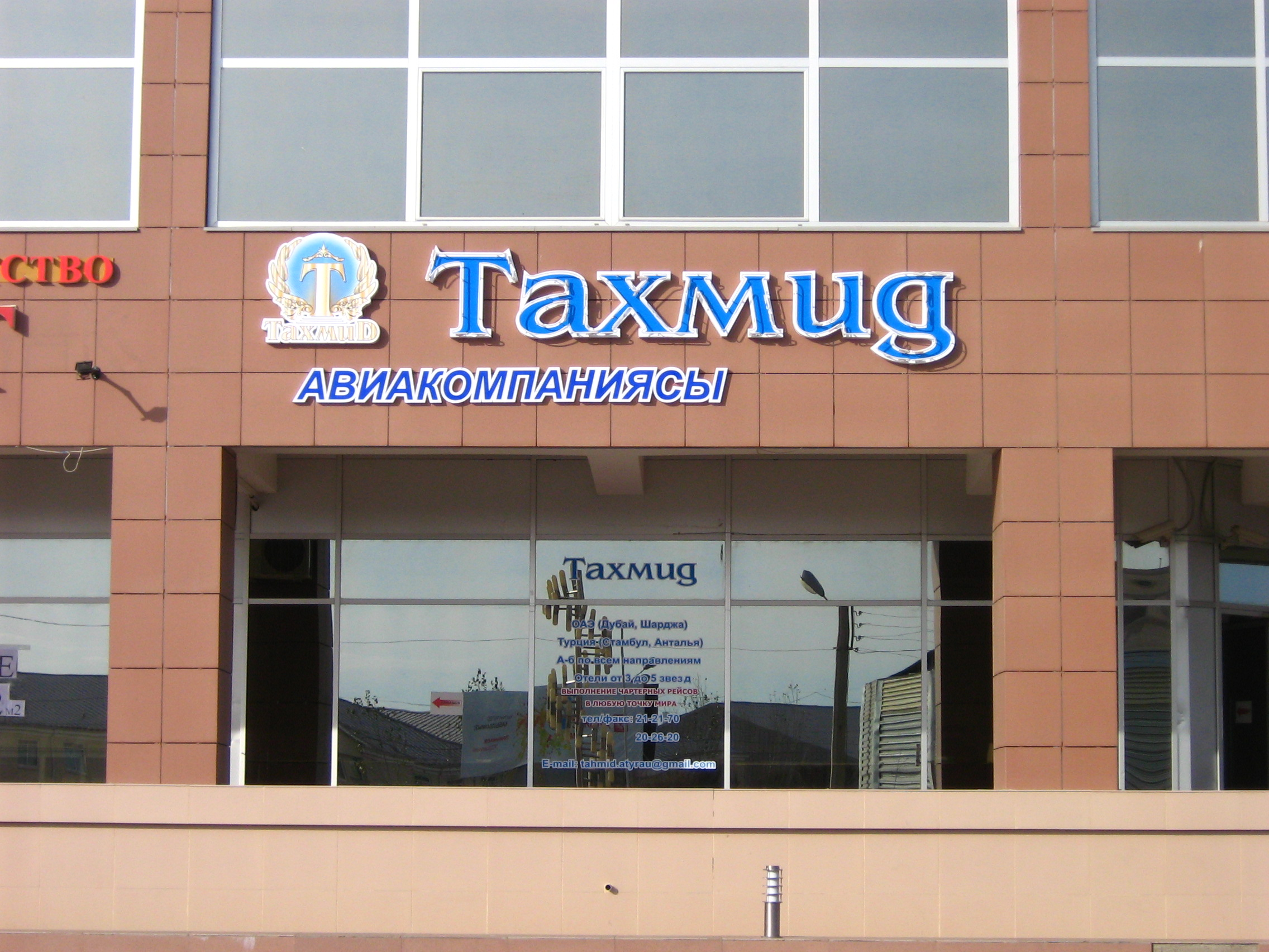 Tahmid Air's ticket office in Atyrau, Kazakhstan